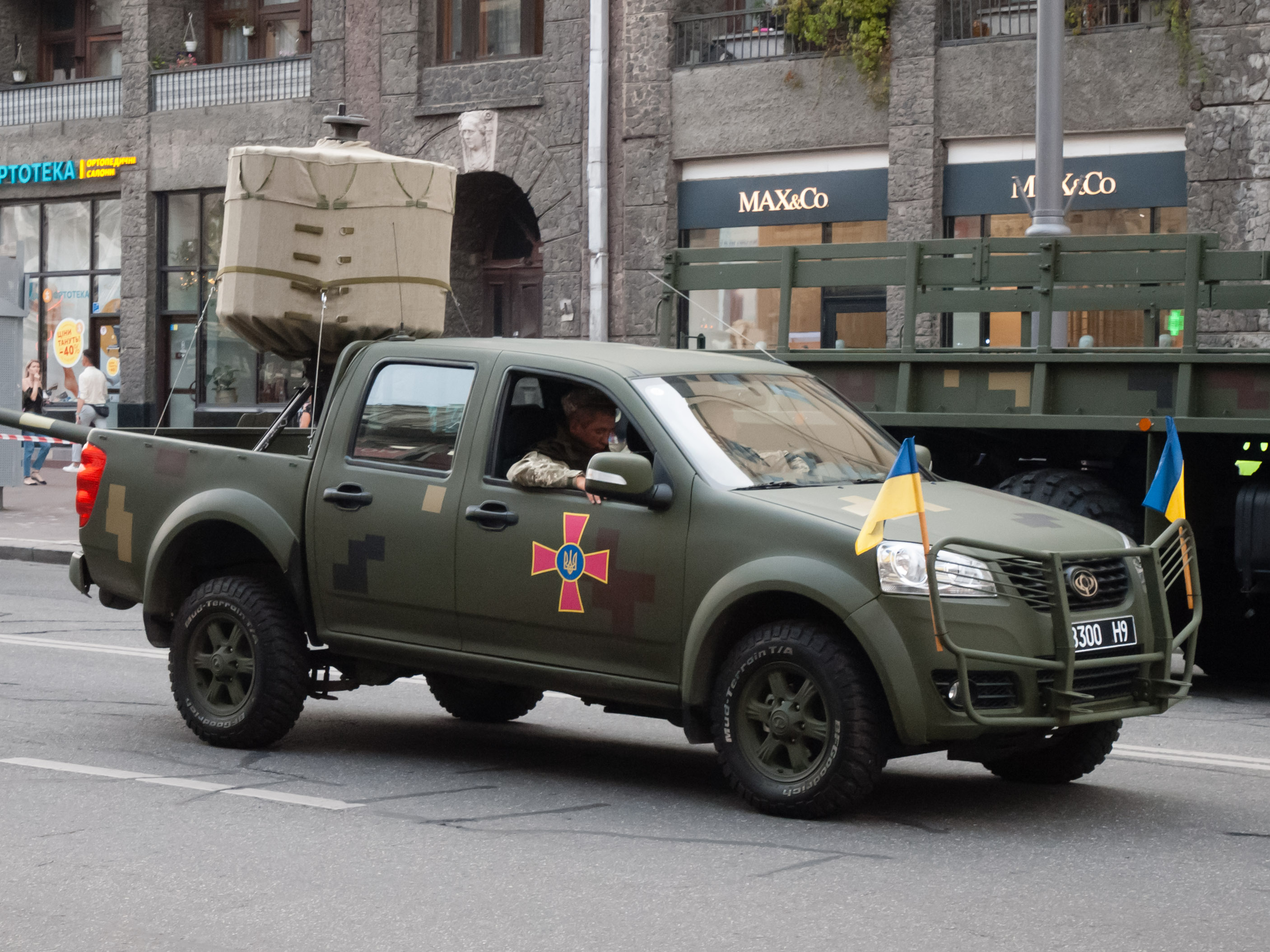 Bogdan-2351 vehicle and AN-TPQ-48 military radar, rehearsal for the Independence Day military parade in Kyiv, 2018